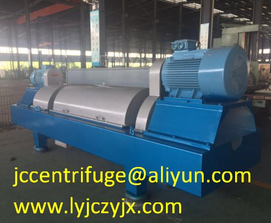 A decanter centrifuge separates solids from one or two liquid phases in one single continuous process. This is done using centrifugal forces that can be well beyond 3000 times greater than gravity. When subject to such forces, the denser solid particles are pressed outwards against the rotating bowl wall, while the less dense liquid phase forms a concentric inner layer. Different dam plates are used to vary the depth of the liquid – the so-called pond – as required. The sediment formed by the solid particles is continuously removed by the screw conveyor, which rotates at a different speed than the bowl. As a result, the solids are gradually “ploughed” out of the pond and up the conical “beach”. The centrifugal force compacts the solids and expels the surplus liquid. The dried solids then discharge from the bowl. The clarified liquid phase or phases overflow the dam plates situated at the opposite end of the bowl. Baffles within the centrifuge casing direct the separated phases into the correct flow path and prevent any risk of cross-contamination. The speed of the screw conveyor may be automatically adjusted by use of the variable frequency drive (VFD) in order to adjust to variation in the solids load.